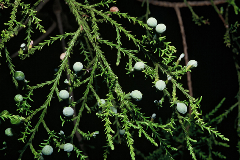 Unripe cones of Kahikatea Dacrycarpus dacrydioides, New Zealand. Photo: Don Merton, 1996.